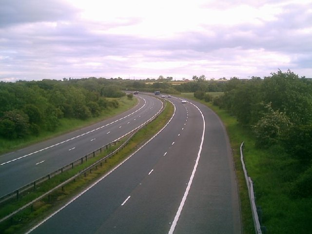 A1(M) Motorway, Merrybent, Darlington. The motorway was built along the trackbed of the former Merrybent Railway as far as Barton Quarries. This is close enough to Low Coniscliffe to be in its parish, but since the A1 went through here, it has acted as a psychological division between Low Coniscliffe and Merrybent.